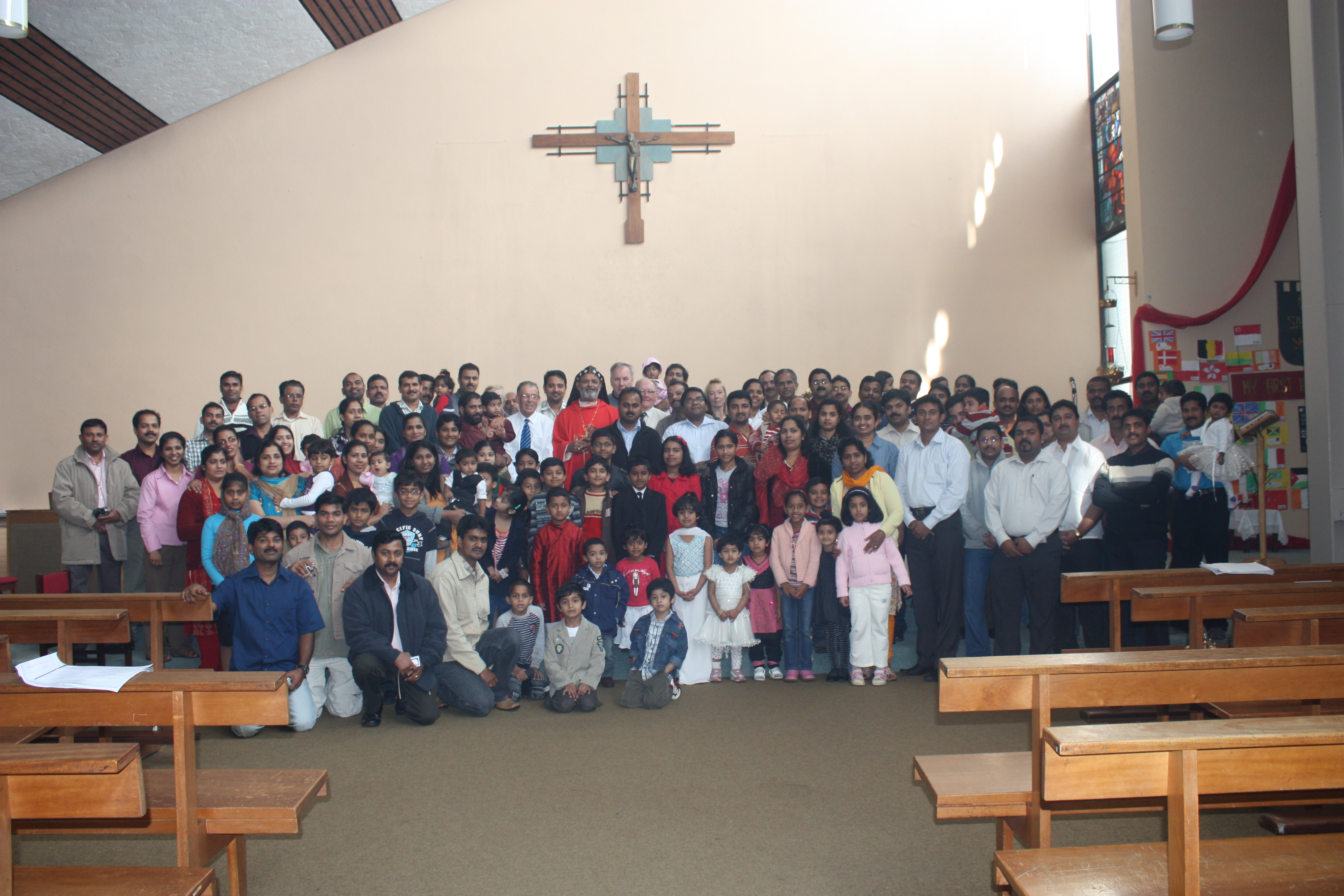 Syro-Malankara Catholics in Ireland with His Excellency Most Rev.Dr.Joshua Mar Ignathius. ( Mavelikara Diocese Bishop / KCBC President)